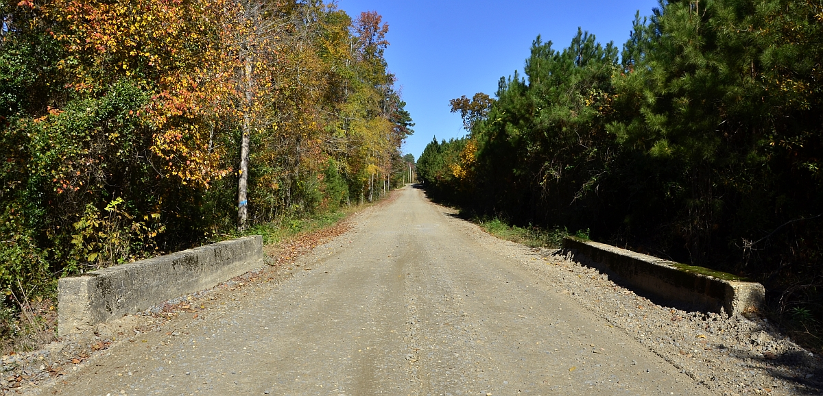 Dollarway Road in Redfield, Arkansas. This portion of Reynolds Road shows an original concrete bridge.